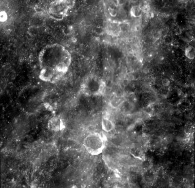 Lipskiy lunar crater - Clementine image